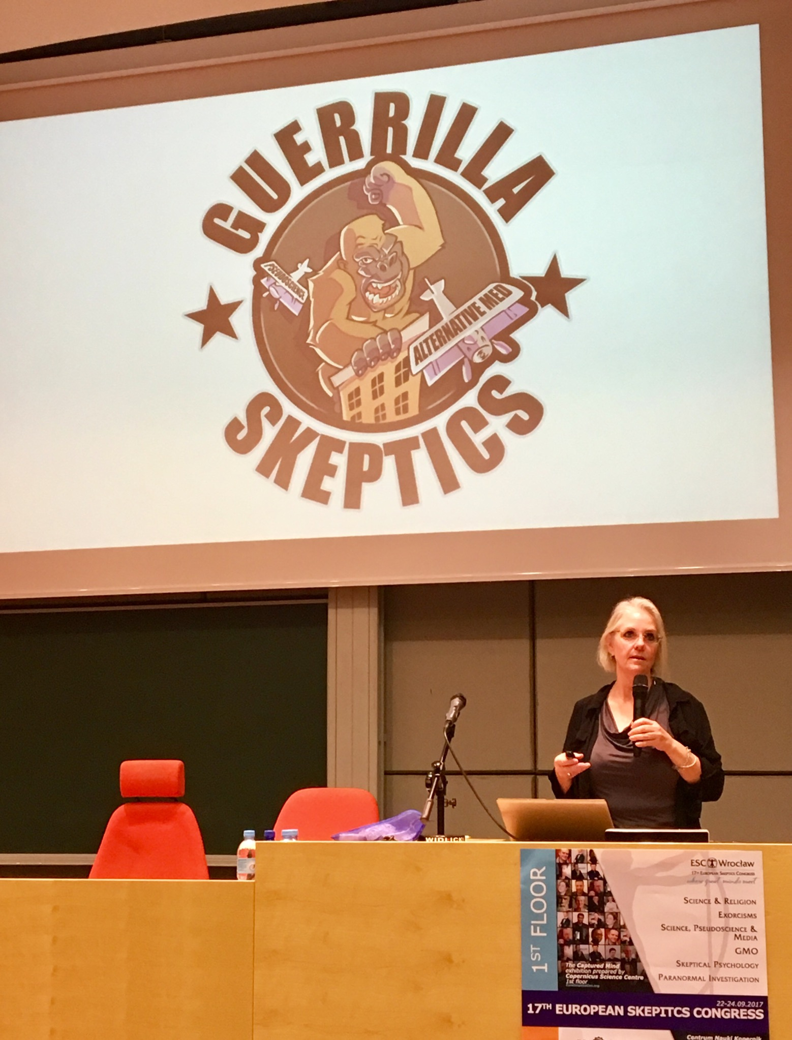 Susan Gerbic during the 17th European Skeptics Congress